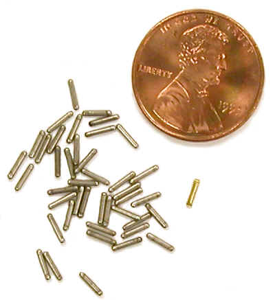 Photo of radioactive seeds. These implants are a form of radiation therapy for prostate cancer. Brachytherapy or internal radiation therapy are also terms used to describe this procedure Visit the Nuclear Regulatory Commission's website at To comment on this photo go to Photo Usage Guidelines: Privacy Policy